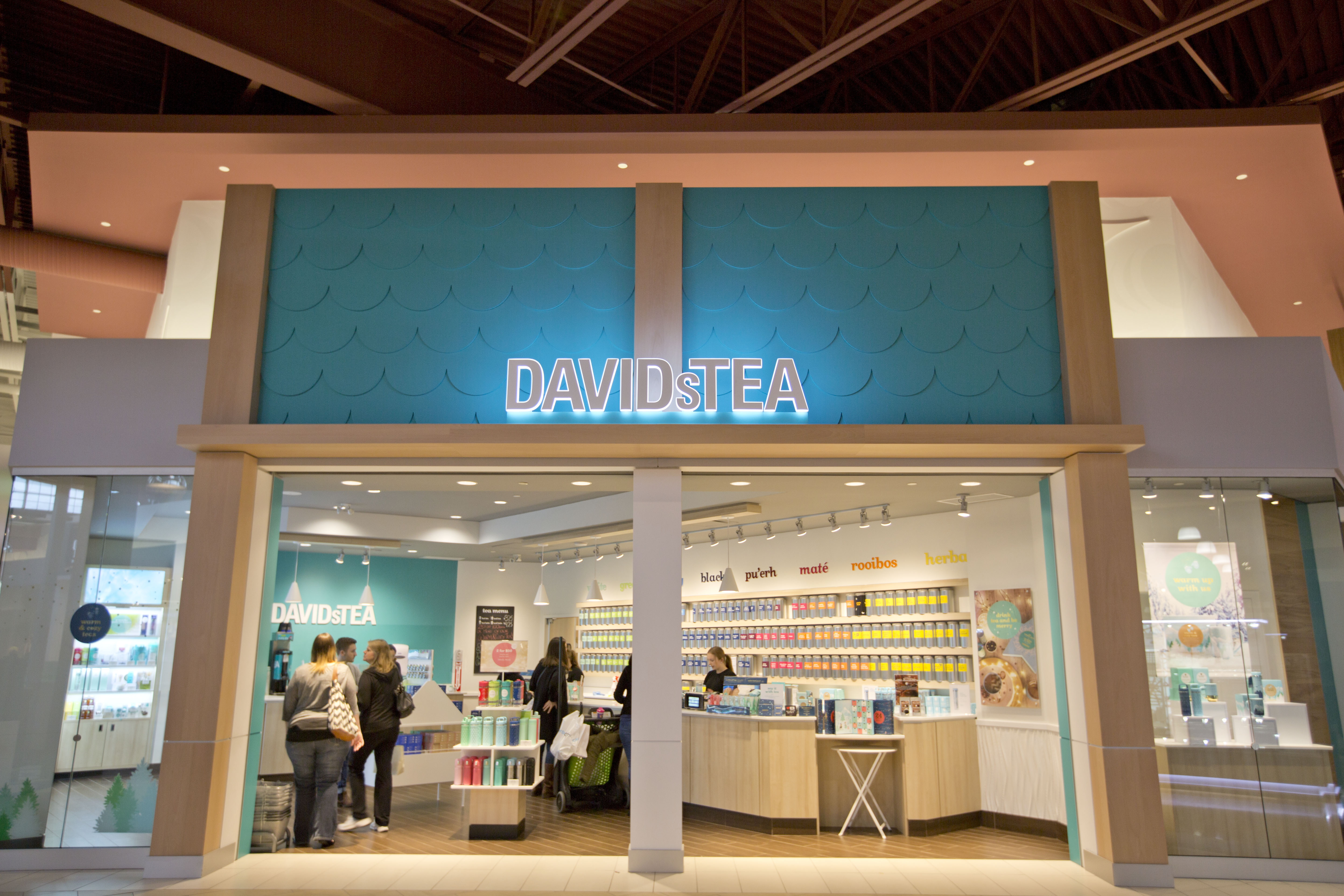 DAVIDsTEA | Tsawwassen Mills Outlet Shopping Mall